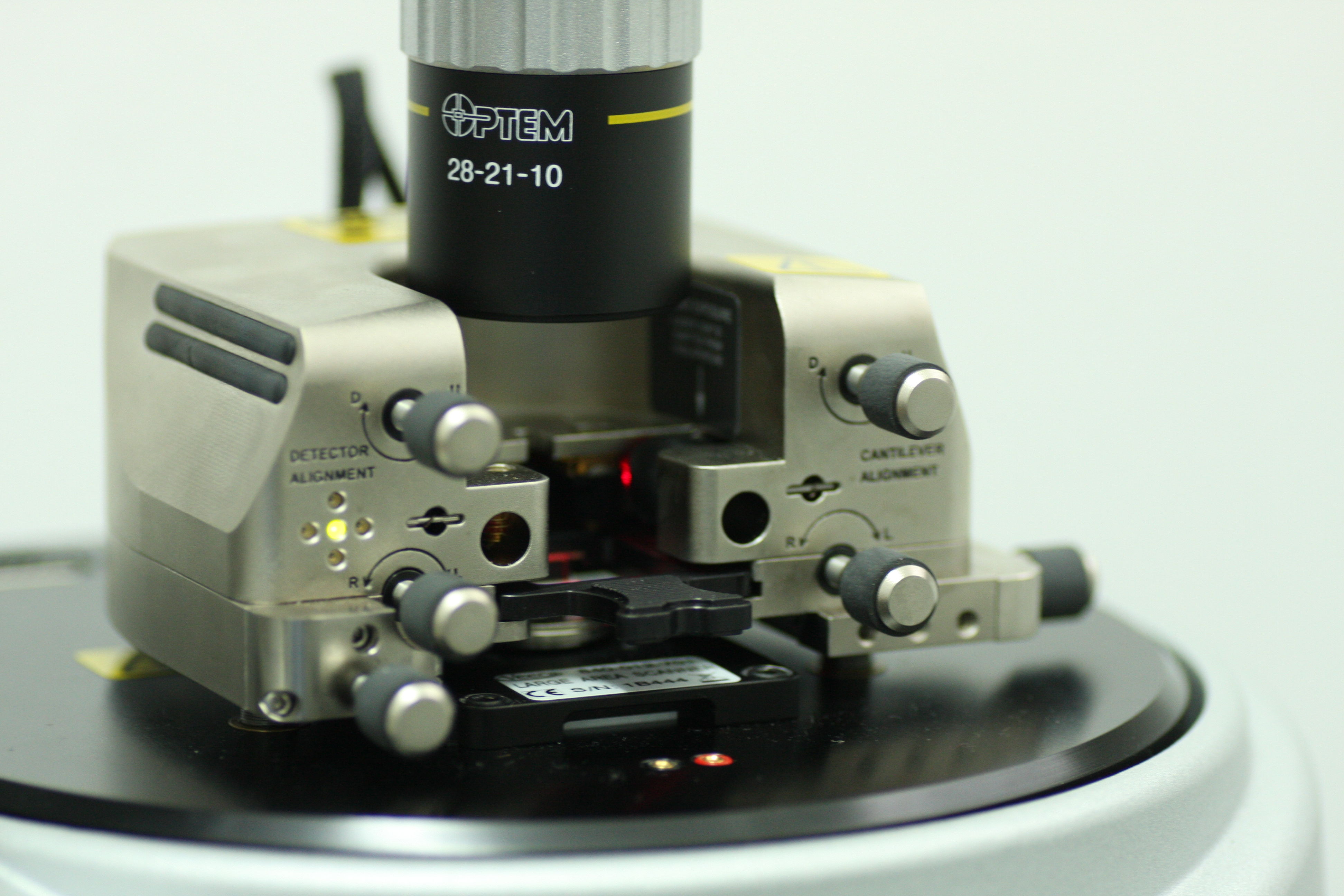 Scanning Probe Miroscope head details in AFM configuration (Veeco)